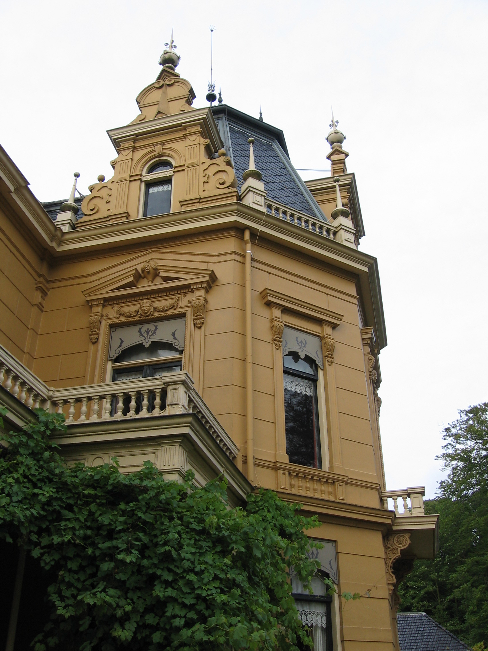 Castle of Nienoord in Leek, Groningen (Netherlands)